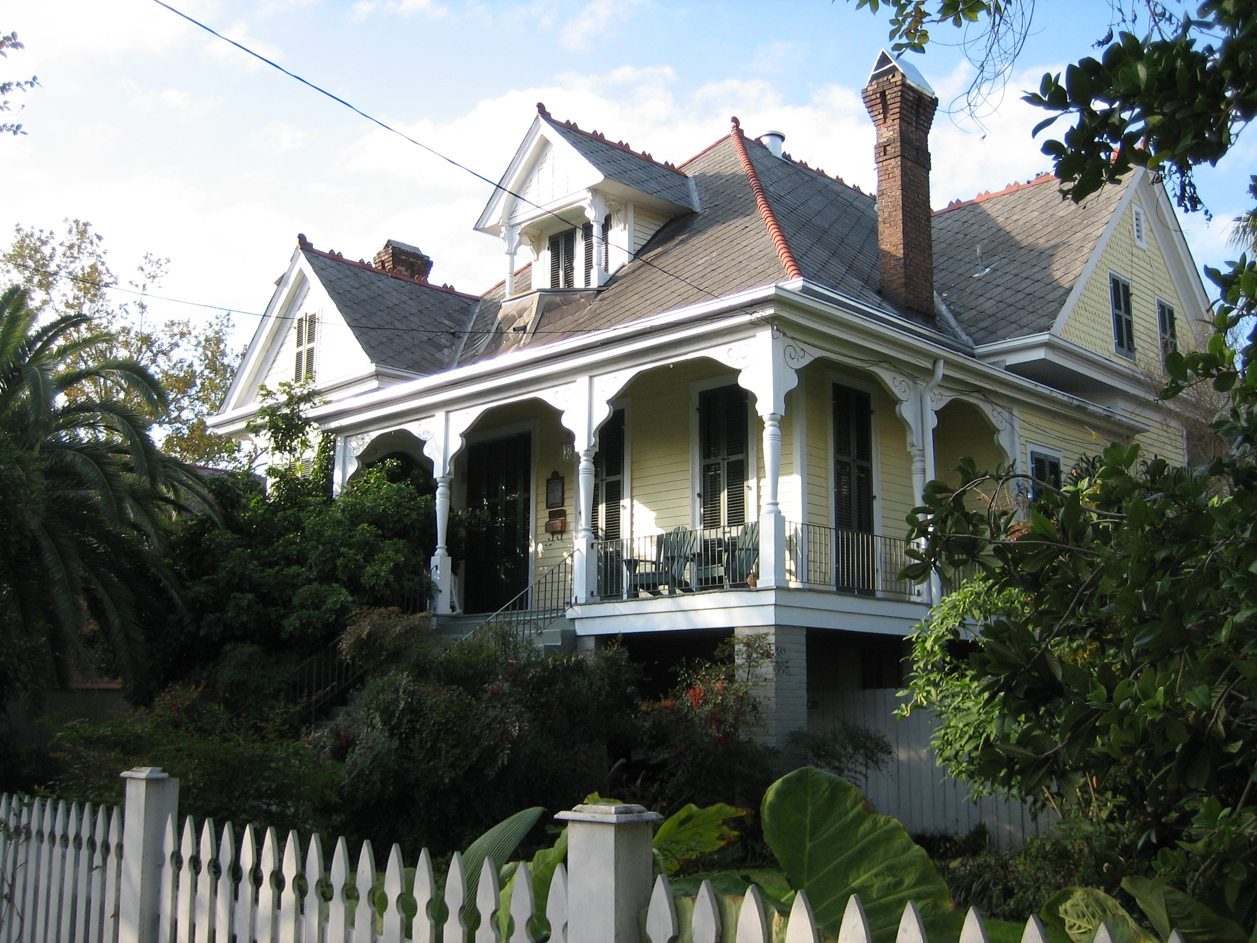 New Orleans. House on Camp Street where the Boswell Sisters grew up. Photo by Infrogmation, December, 2005. See also: Image:BoswellHouseCamp92.jpg photo of same building in 1992.